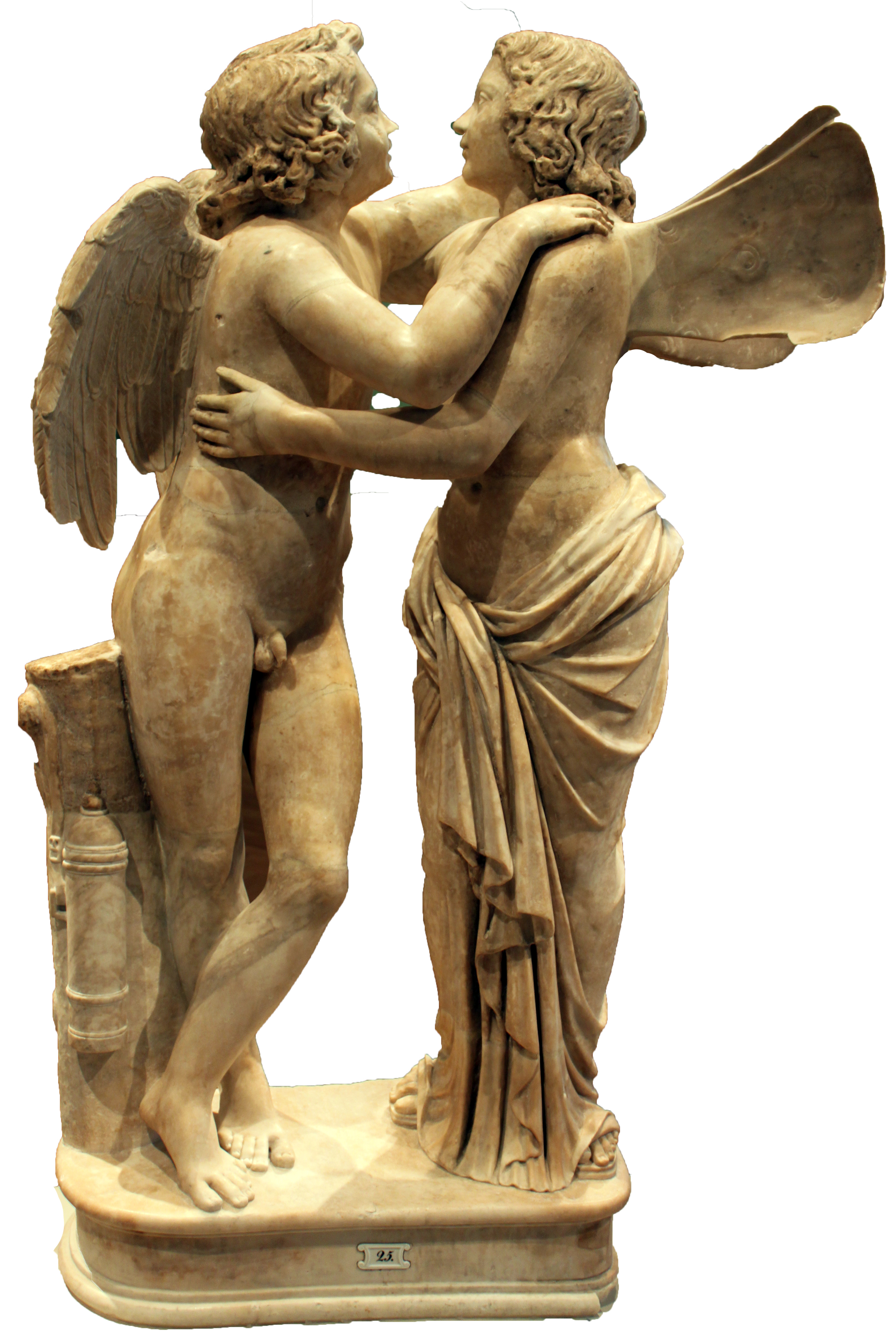 Amor and Psyche; Roman Copy around 150 AD, Original 1rst century BC Altes Museum Native nameAltes MuseumLocationBerlinCoordinates52° 31′ 10″ N, 13° 23′ 54″ E Established1828Website control VIAF: 202689698 LCCN: n83197241 GND: 4506837-9 WorldCat Section: Roman Sculpture and Greek Model, Sk 151